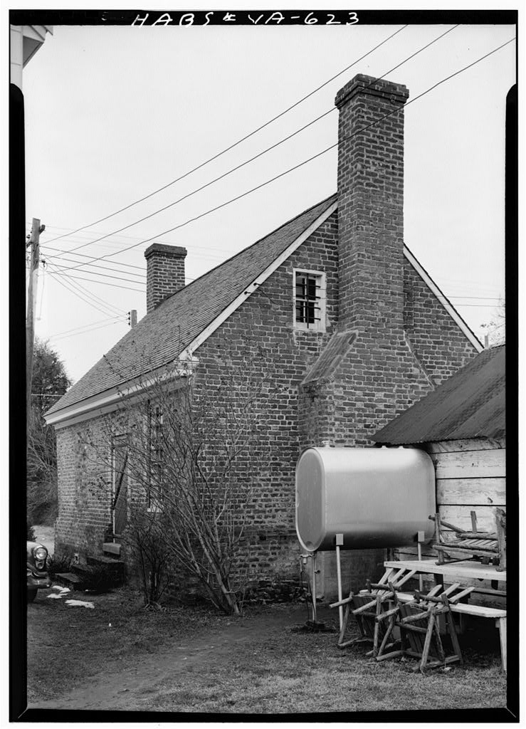 A rear view of the Debtors' Prison in Accomac, Virginia.